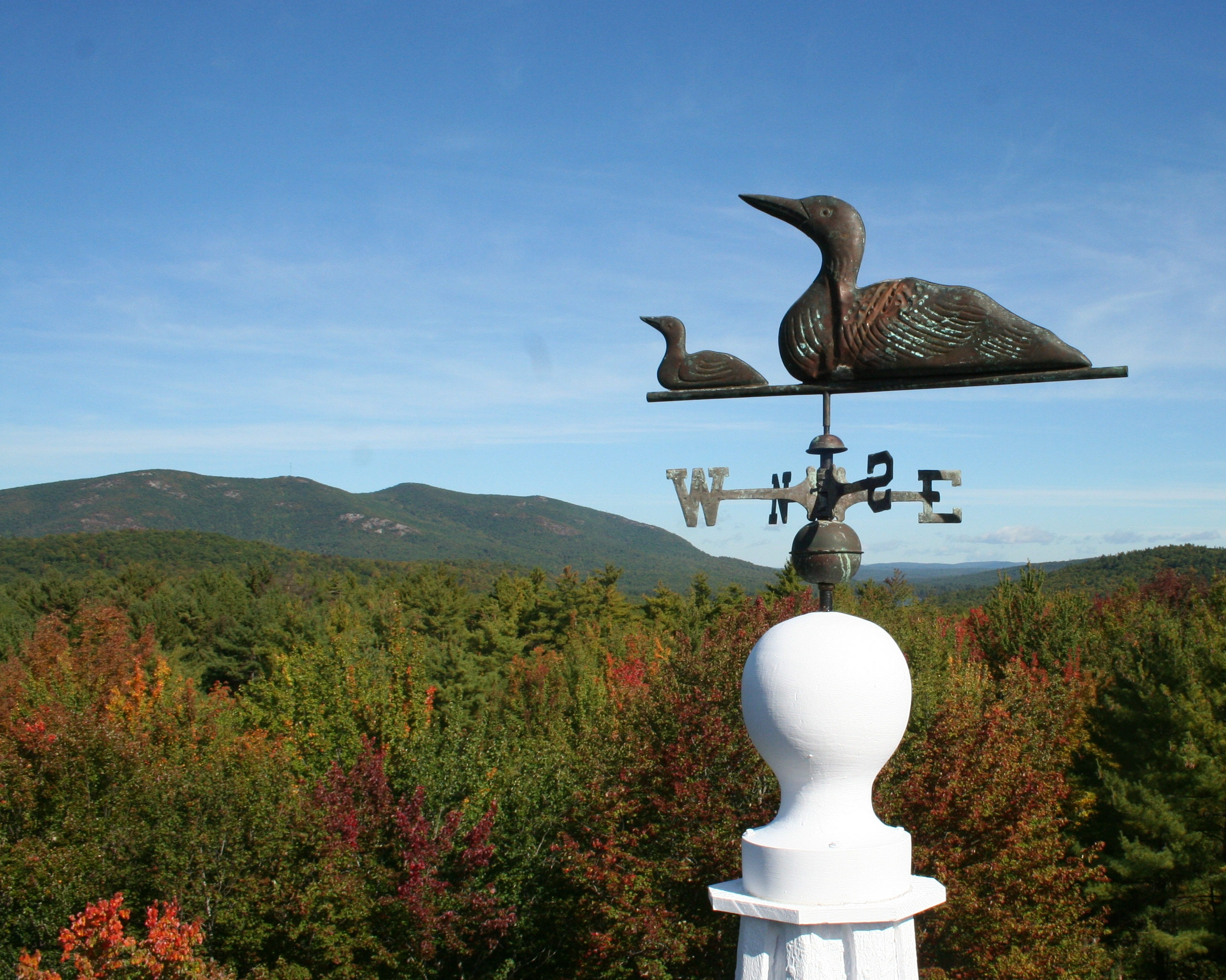 View of Pleasant Mountain from the Denmark Village, Denmark, Maine